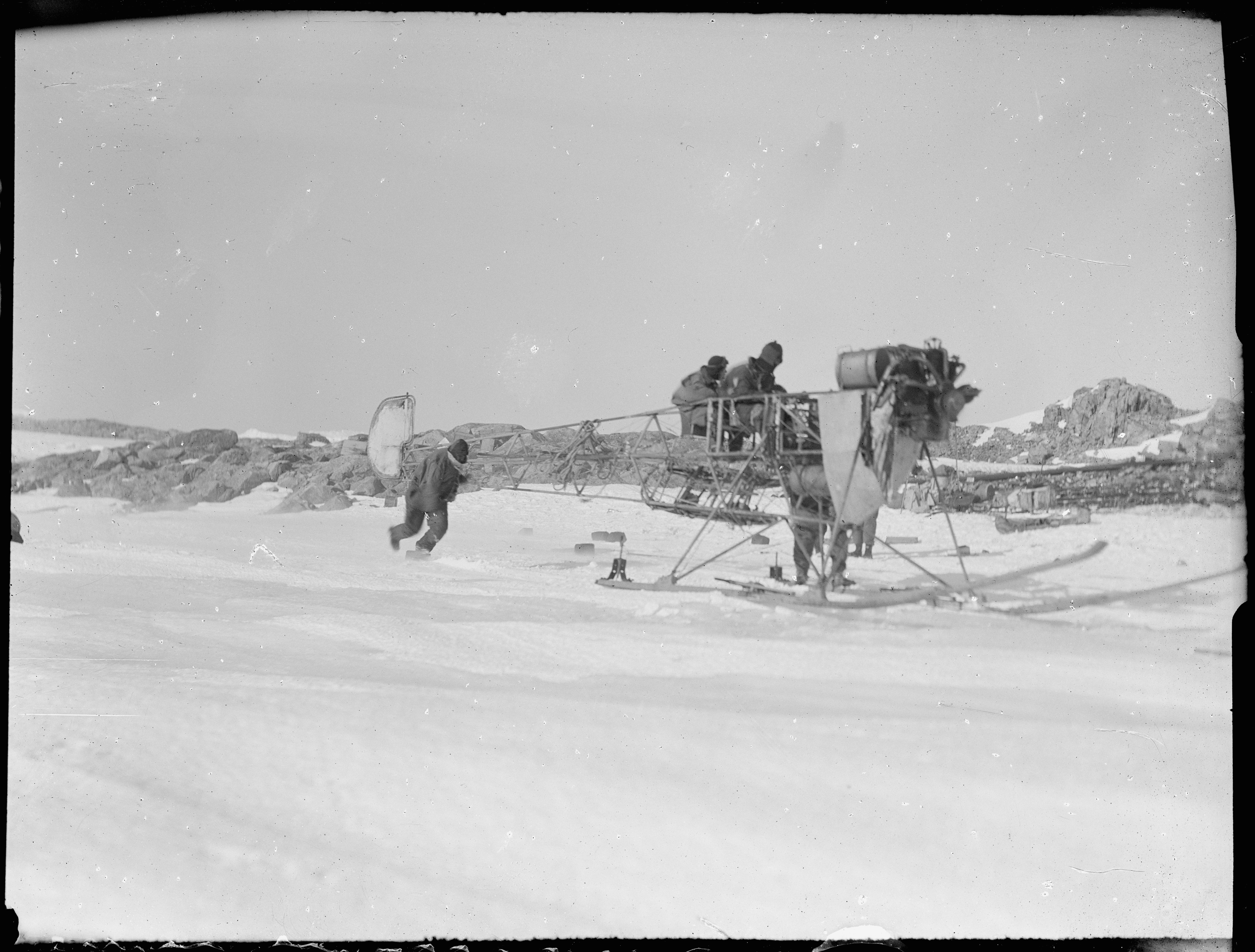 The Air tractor - the Vickers REP monoplane was damaged in Australia and never flew in Antarctica, however was used minus its mainplanes as a tractor.